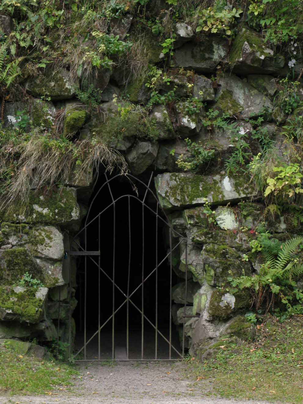 Svaty_anton_park6.JPG